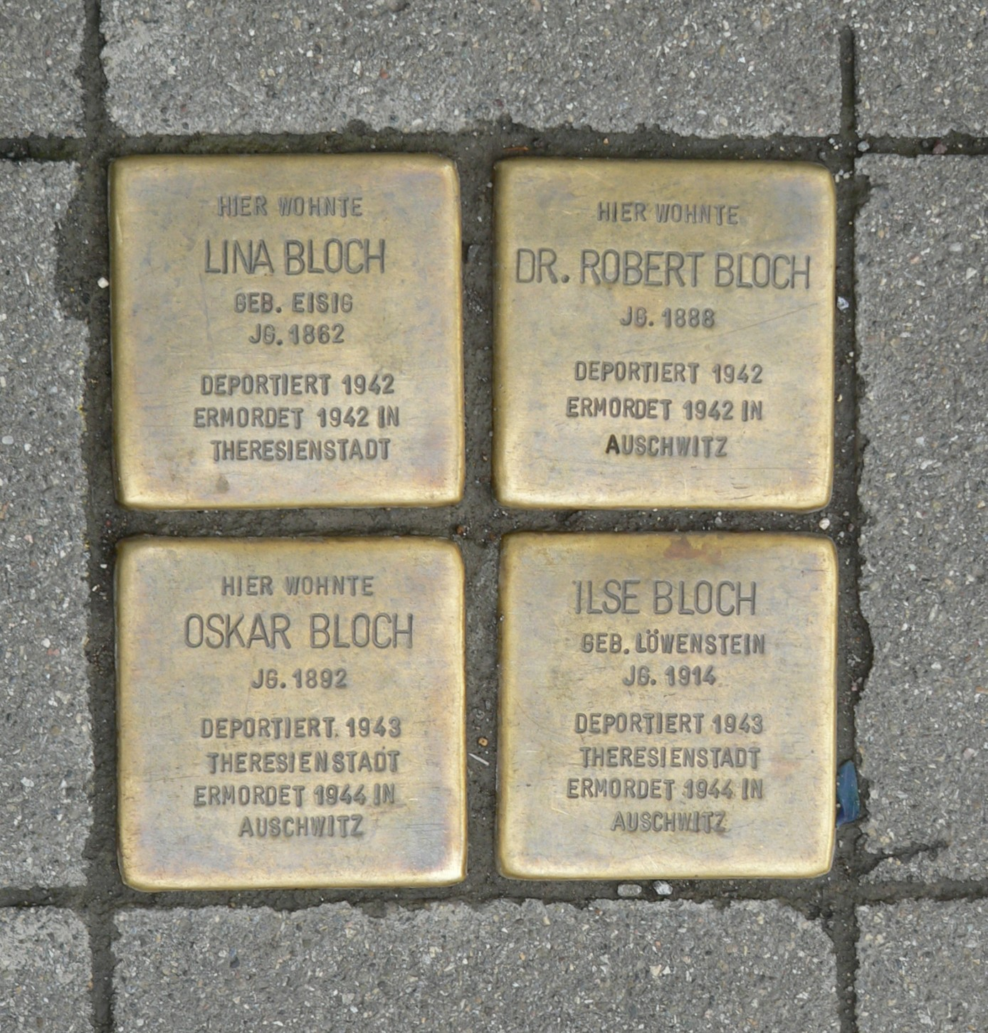 Stolpersteine, Johannesstr., Stuttgart, Germany. The Stolperstein ("stumbling block") Project by German artist Gunter Demnig is a multi-nation Holocaust memorial. The cobblestone-sized brass plaques are installed at the last residence or workplace of those killed by the Nazis. As of May 2010, there are over 22,000 stolpersteine in some 530 cities and towns in Germany, Austria, the Netherlands, Belgium, the Czech Republic, Hungary, Italy, Poland and Ukraine.